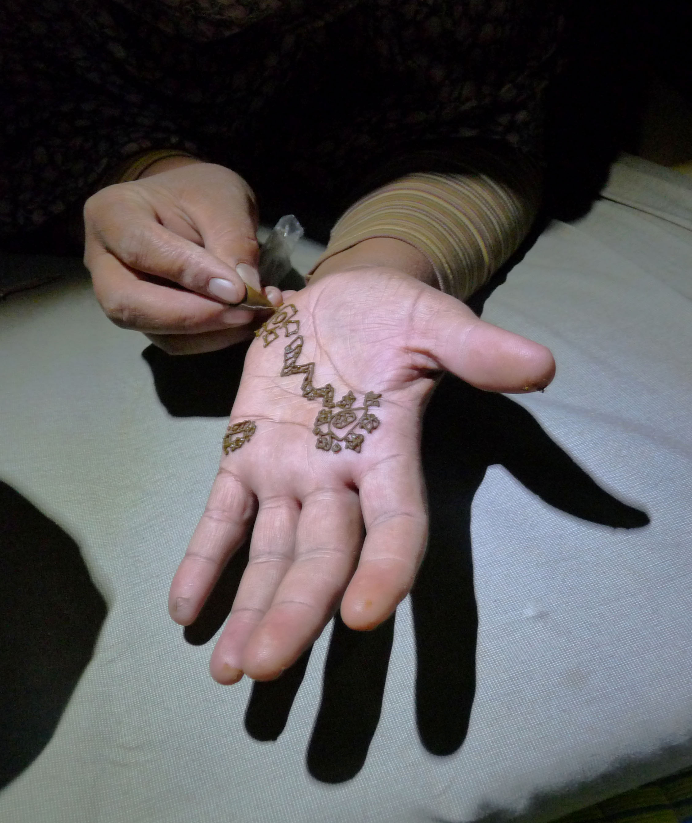 Henna tattooing in Adrar (Mauritania)